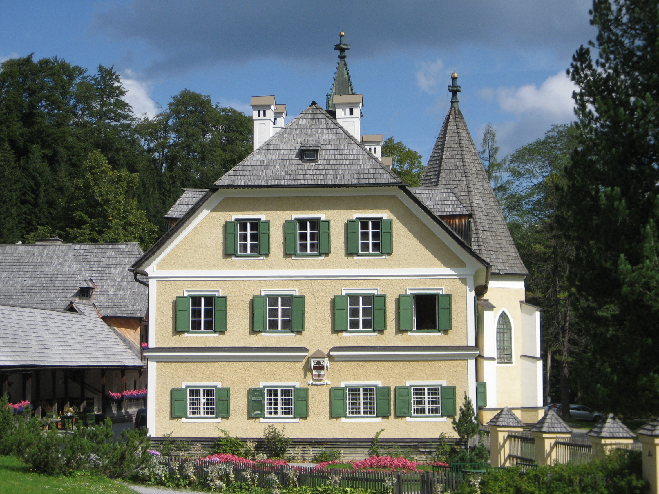 Brandhof castle - Styria